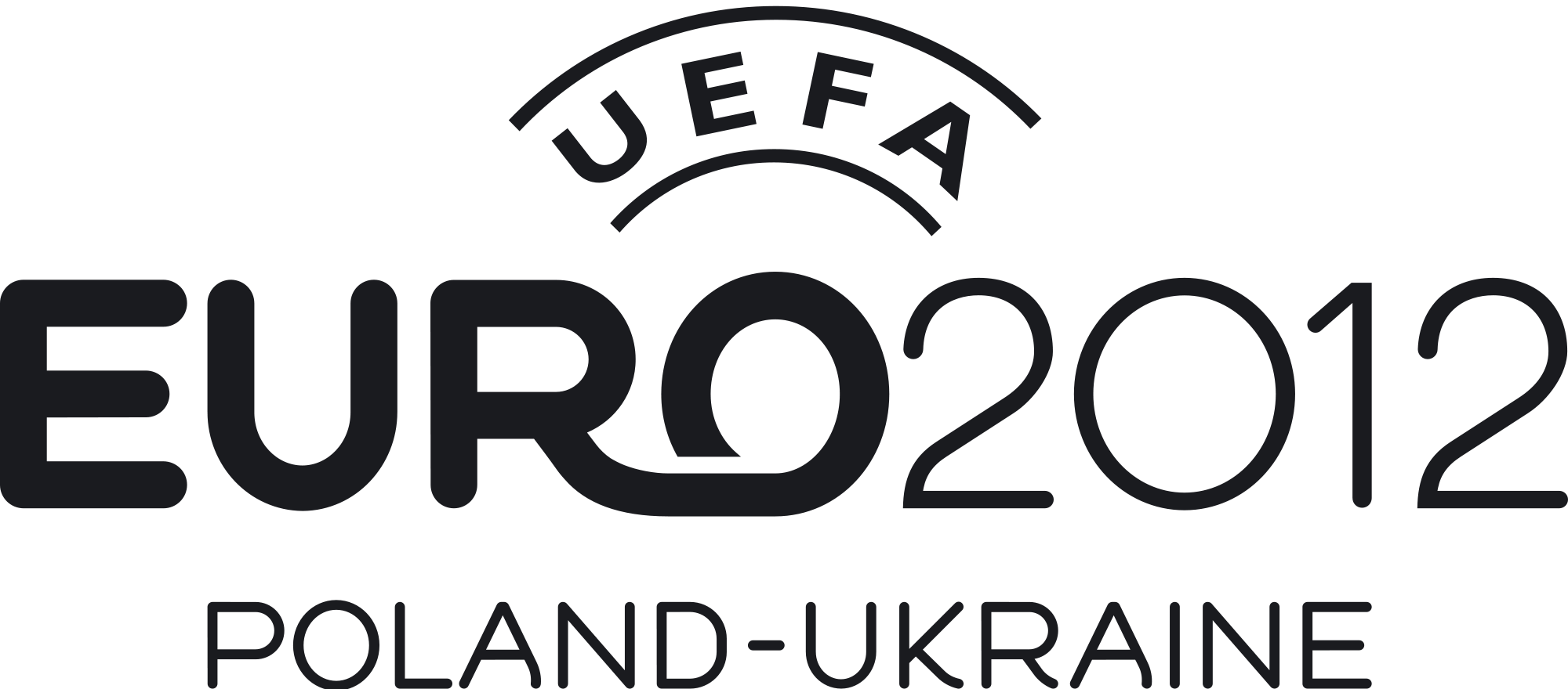 UEFA Euro 2012 logo,was the 14th European Championship for men's national football teams organised by UEFA. The final tournament, held between 8 June and 1 July 2012, was hosted for the first time by Poland and Ukraine.